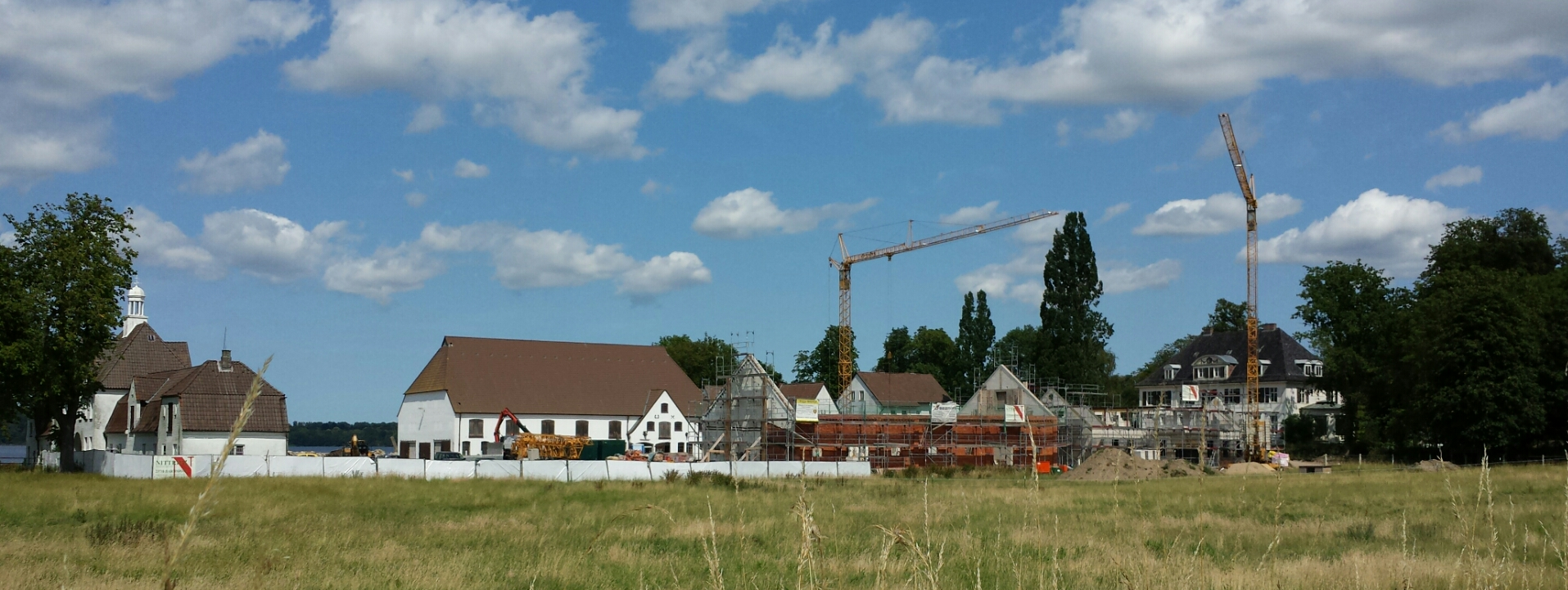 Gut Rothensande aka "Der Immenhof" under construction in July 2015. Bad Malente-Gremsmühlen, Schleswig-Holstein, Germany